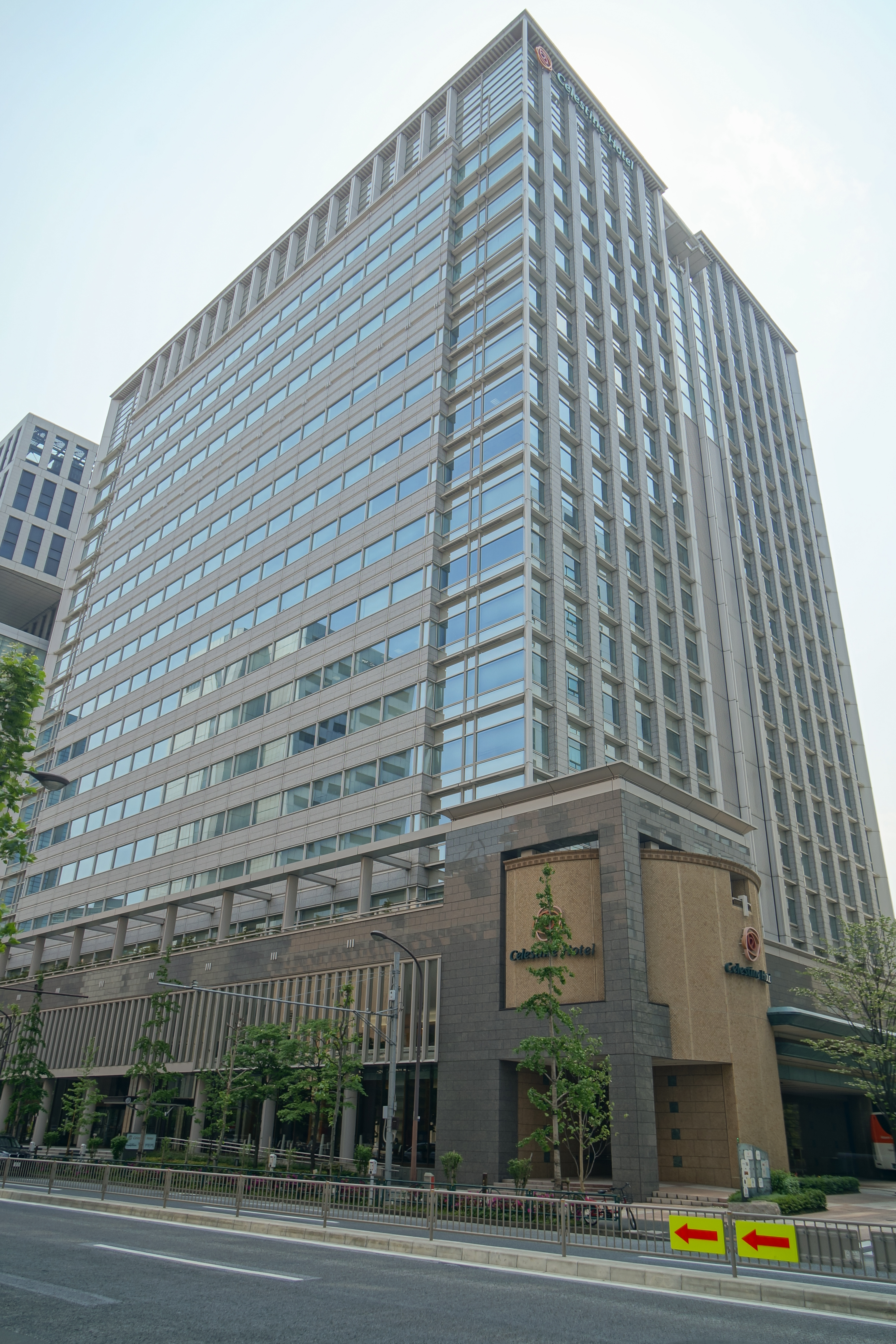 Photograph of the northeast side view of Celestine Shiba Mitsui Building in Minato, Tokyo, Japan.